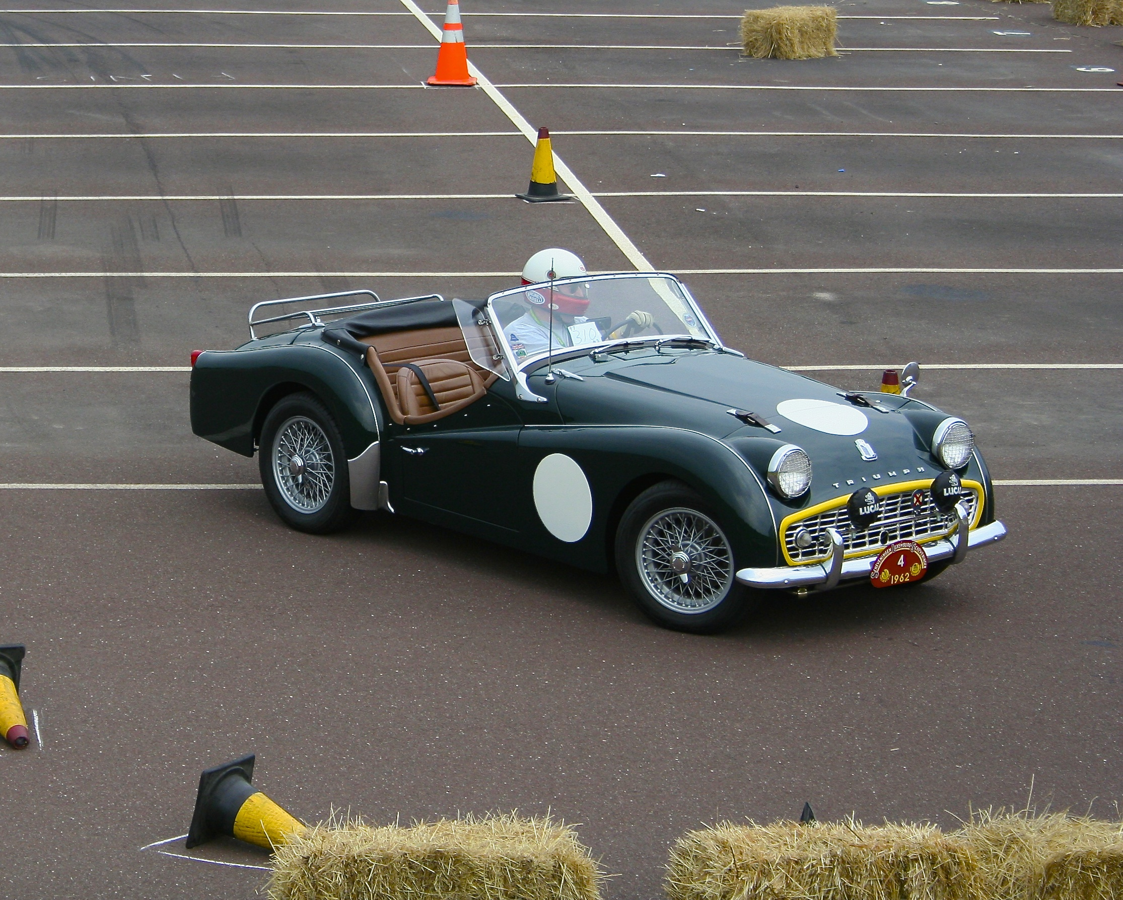 Competition 1960 Triumph TR3 2.2 Litre in Pit Lane